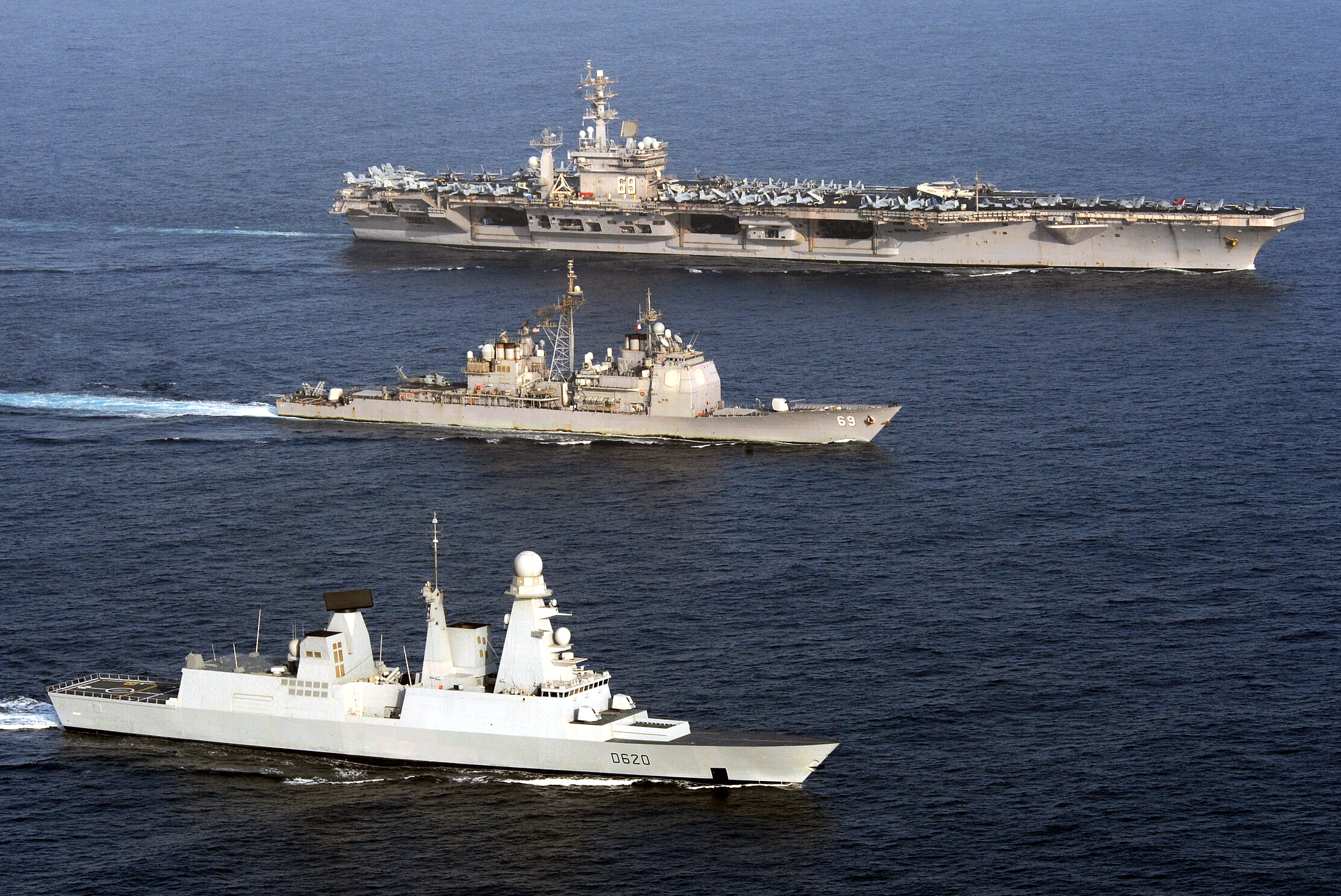 Arabian Sea: The French Navy destroyer Forbin (D620) operates alongside aircraft carrier USS Dwight D. Eisenhower (CVN 69) and guided missile cruiser, USS Vicksburg. The Eisenhower Carrier Strike Group is deployed to the U.S. 5th Fleet area of responsibility during a scheduled deployment supporting Operation Enduring Freedom and maritime security operations.